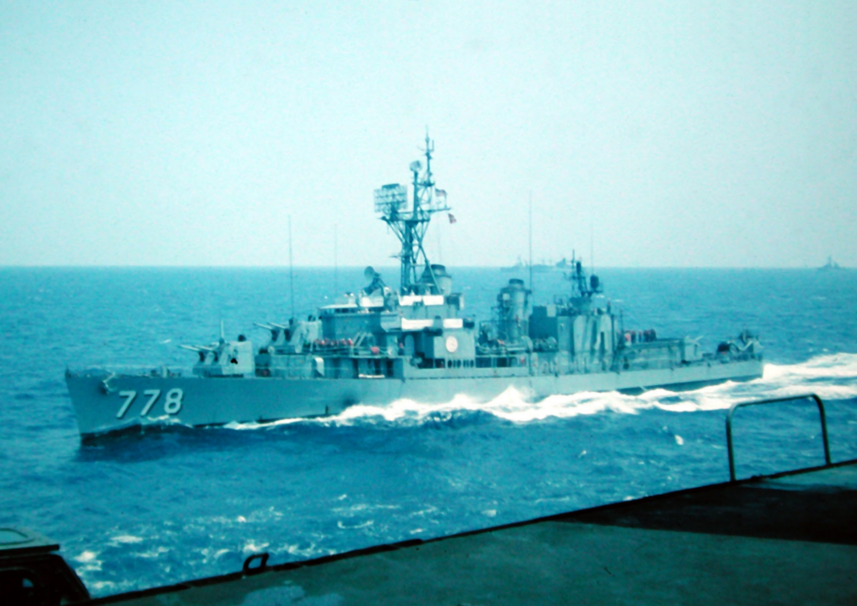 The U.S. Navy USS Massey (DD-778) steaming next to the aircraft carrier USS Franklin D. Roosevelt (CVA-42) in the Mediterranean Sea, 1971.